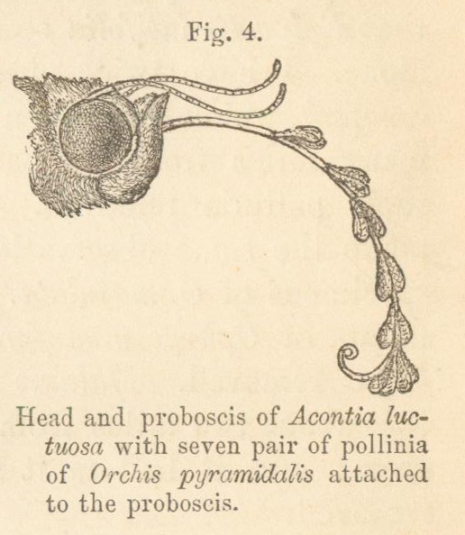 Figure 4 from the 1877 edition of Charles Darwin's Fertilisation of Orchids. Scanned from a copy of the work at the University of Massachusetts Amherst.